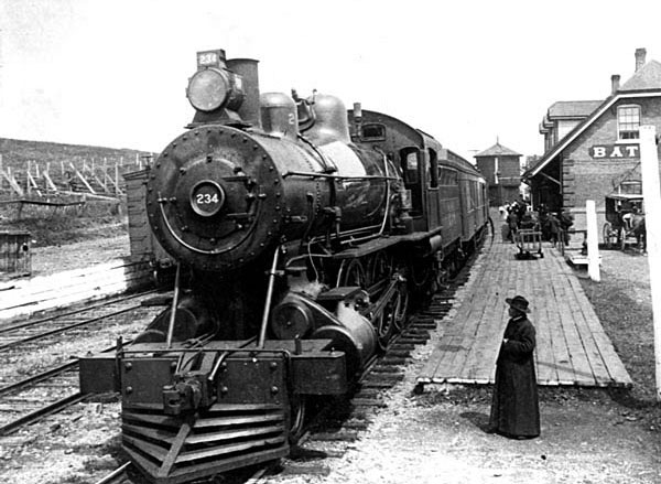 Member of the clergy standing beside train in Bathurst Station, New Brunswick circa 1910.